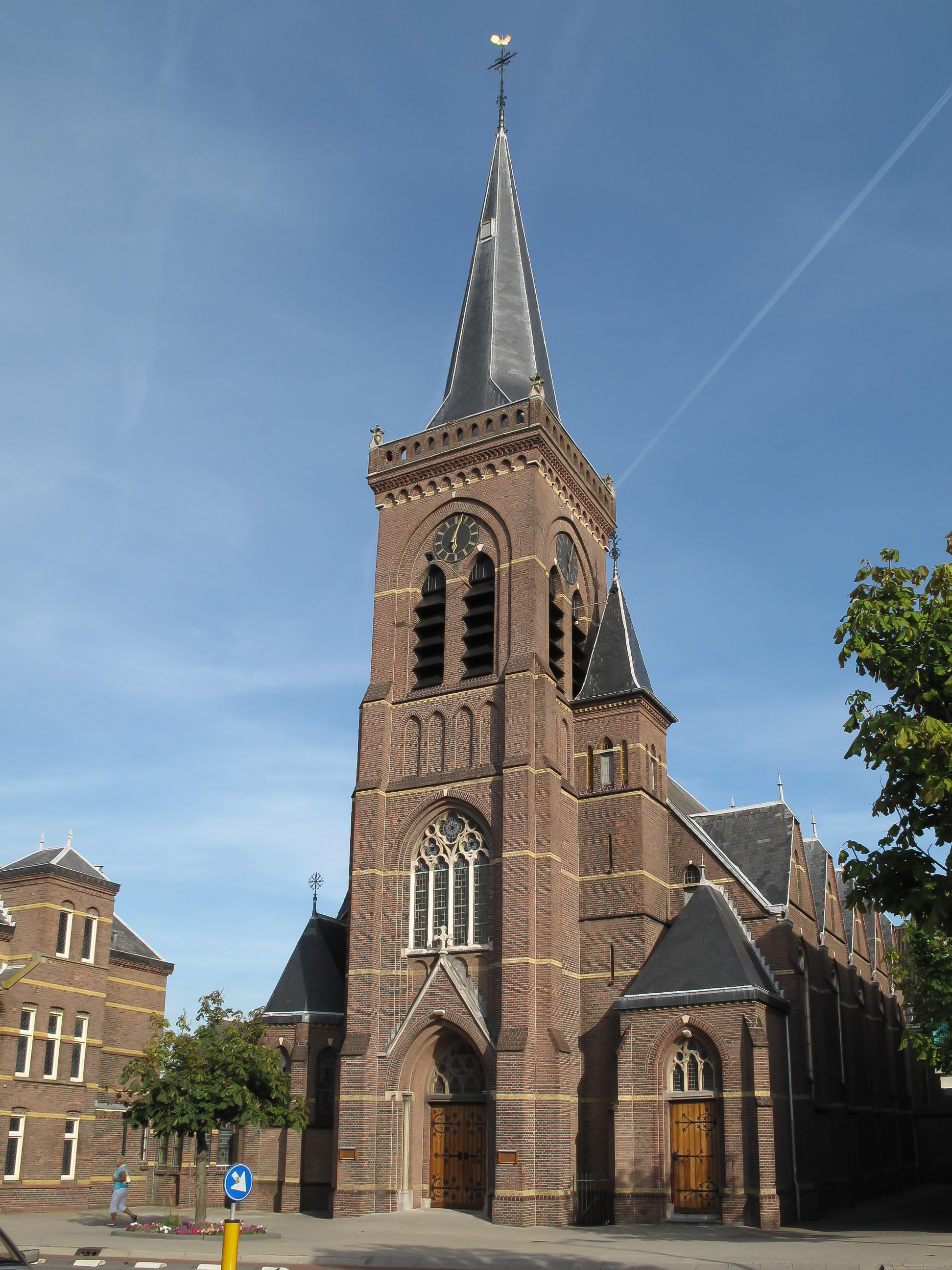 Kwintsheul, church